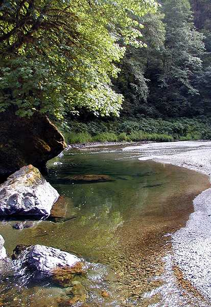 Mill Creek in Redwood National Park